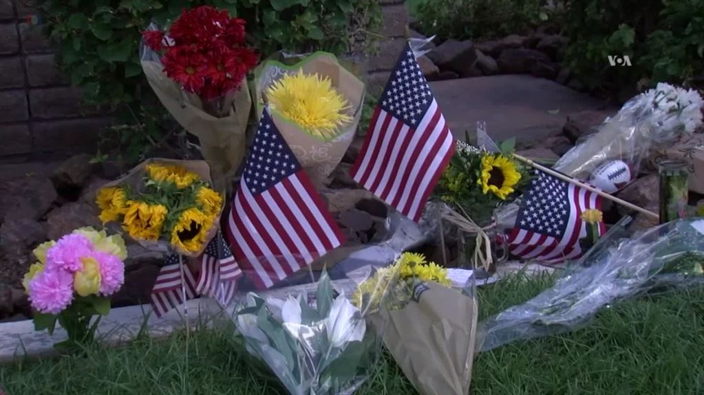 Tribute to the death of John McCain